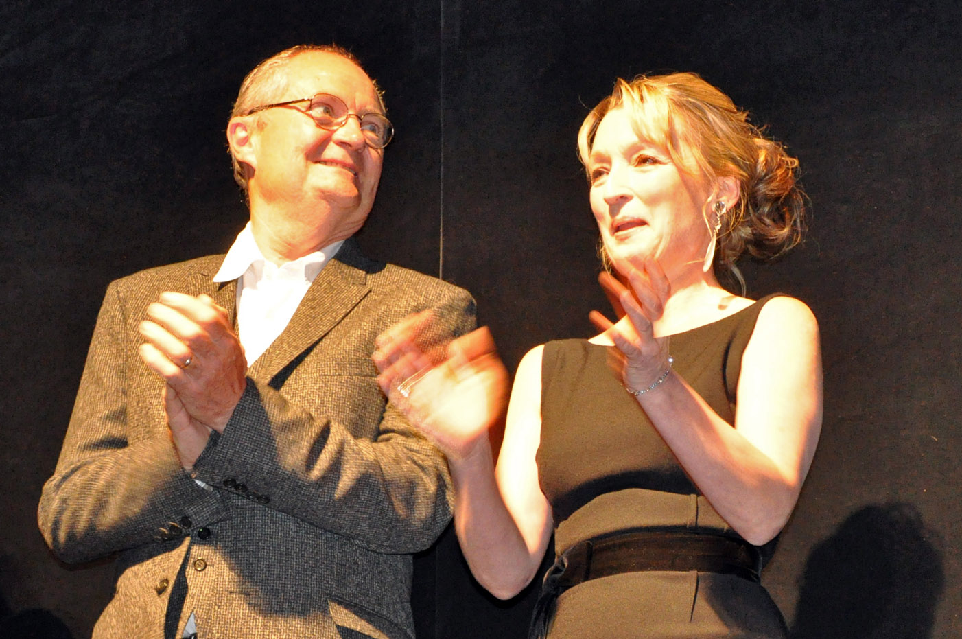 Jim Broadbent and Lesley Manville at the screening of Another Year at the 2010 Toronto International Film Festival